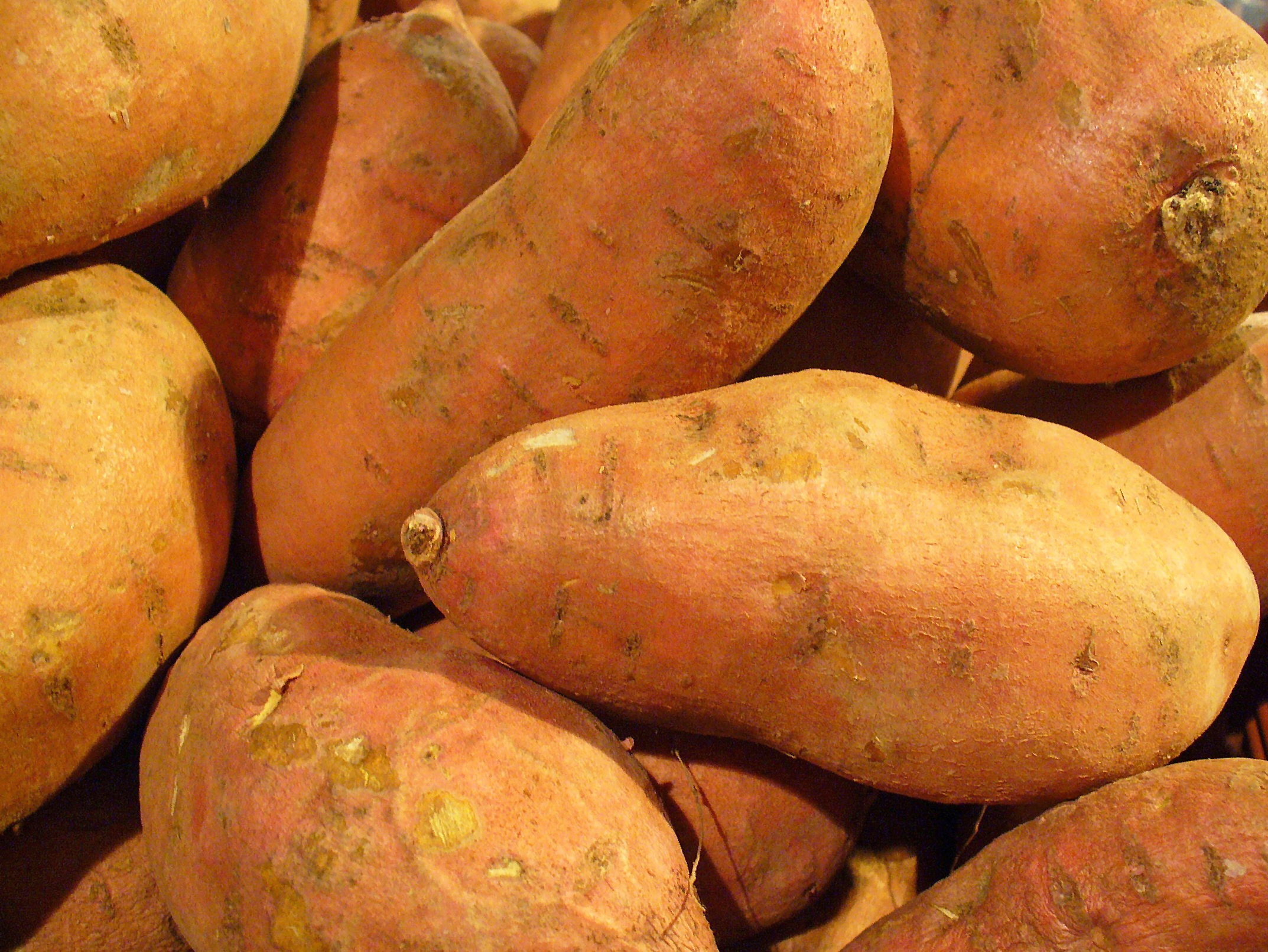 Ipomoea batatas, Convolvulaceae, Sweet Potato, storage roots; Karlsruhe, Germany. The plant is used in homeopathy as remedy: Ipomoea batatas (Ipom-b.)